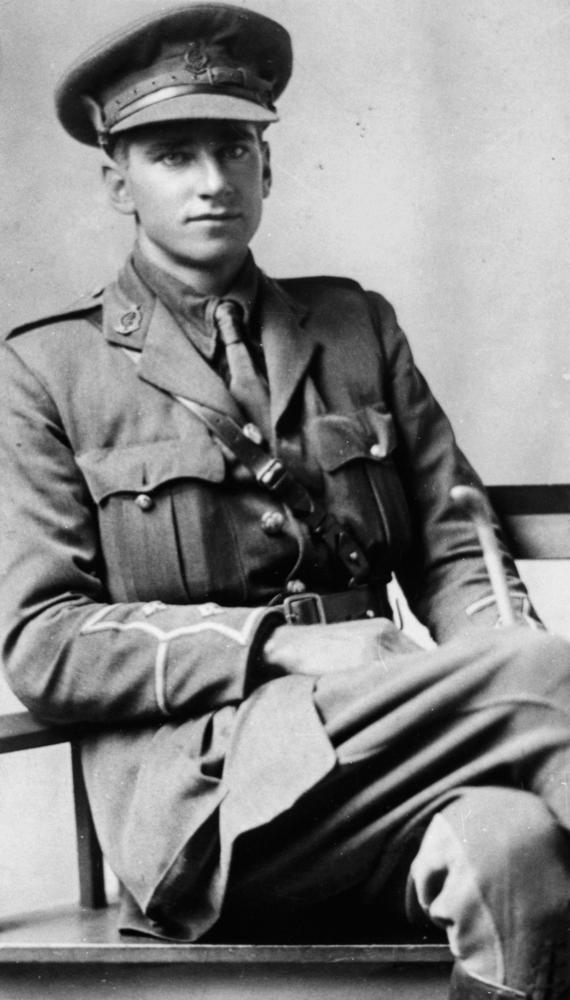 Captain Leslie Jarvis Nye 1917 Captain Les Nye (Doctor Leslie Nye founded the Brisbane Clinic on Wickham Terrace in the 1920s.